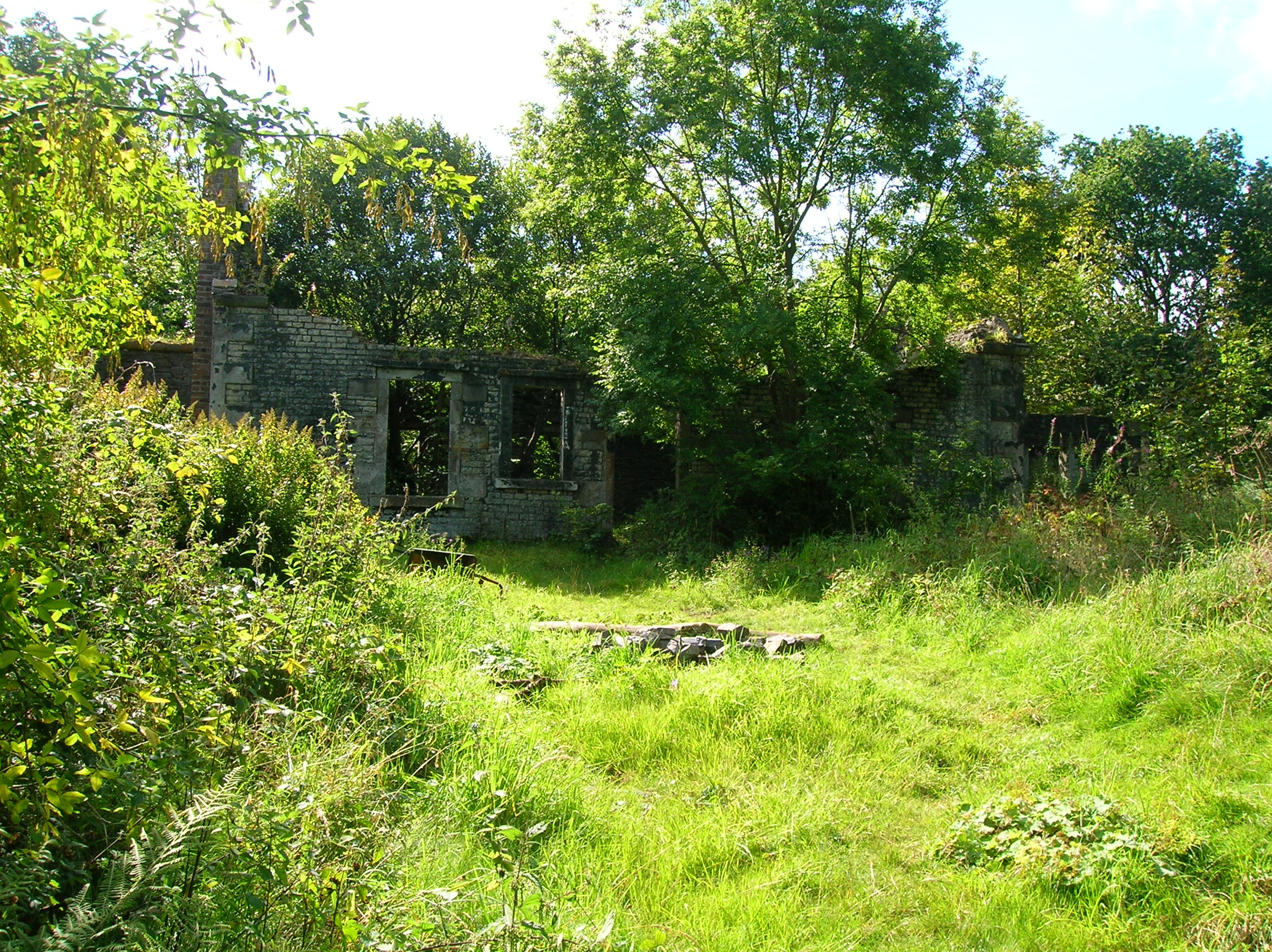 The ruins of Parkthorn house near Auchans Castle, Dundonald. Probably the dwelling of the old estate's factor.